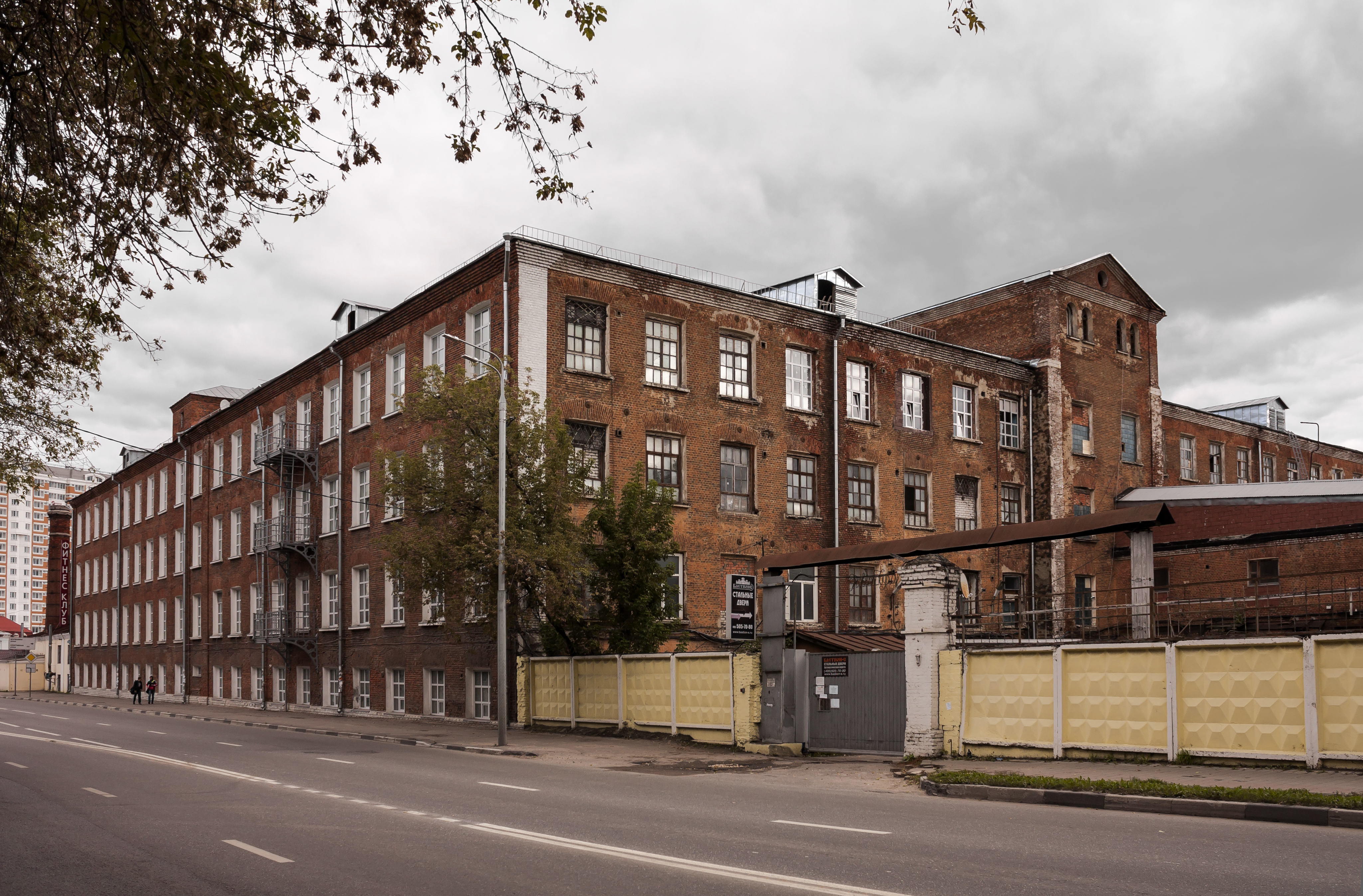 Balashikha cotton mill number 1, associated with the revolutionary movement of the workers of the Moscow province in 1905 and 1917 .: Sovetskaya, 36, Balashikha, Moscow region